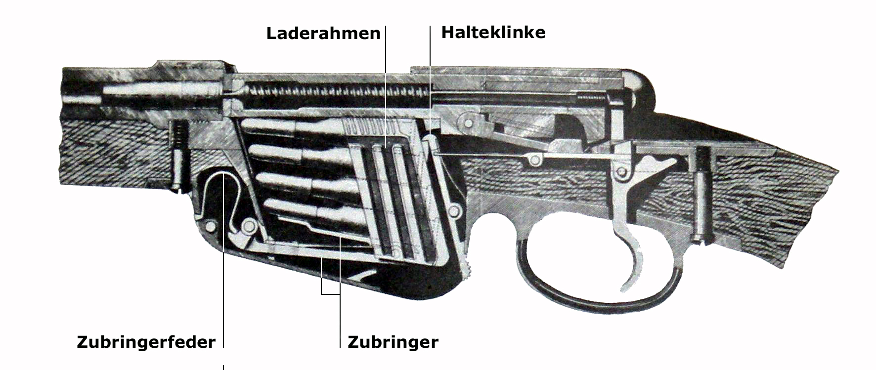 Laderahmen Mannlicher